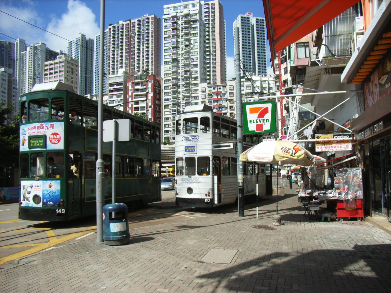 Happy Valley Tram Stations, 跑馬地電車總站, 車來自香港島東西兩邊, 包括港島西面的zh:堅尼地城, 及東面的zh:筲箕灣 Author: BEVERLYSHEN